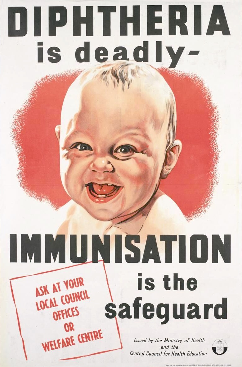 Diphtheria is Deadly whole: the image is positioned in the upper two-thirds, set against a red background. The title and text are partially integrated and placed in the upper quarter and lower half, in black. Further text is separate and placed in the lower left, in red, held within a red border. All set against a white background. image: a portrait of a smiling baby. text: DIPHTHERIA is deadly - IMMUNISATION is the safeguard ASK AT YOUR LOCAL COUNCIL OFFICES OR WELFARE CENTRE Issued by the Ministry of Health and the Central Council for Health Education THE MINISTRY OF HEALTH THE CENTRAL COUNCIL FOR HEALTH EDUCATION PRINTED FOR H.M. STATIONERY OFFICE BY CHROMOWORKS LTD., LONDON. 51-3856.